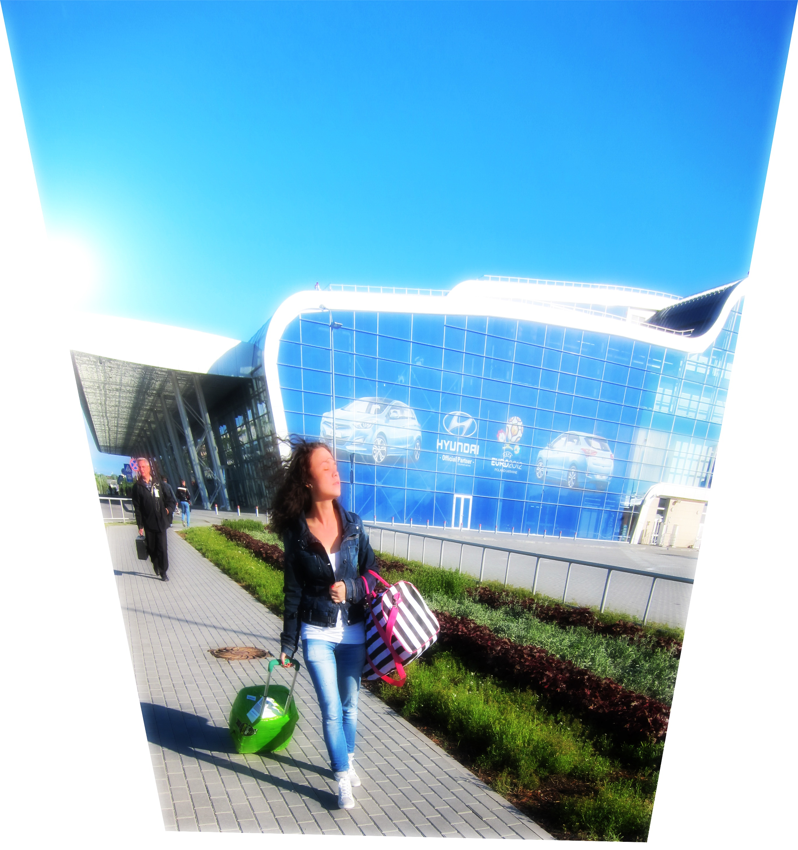 Львівський аеропорт